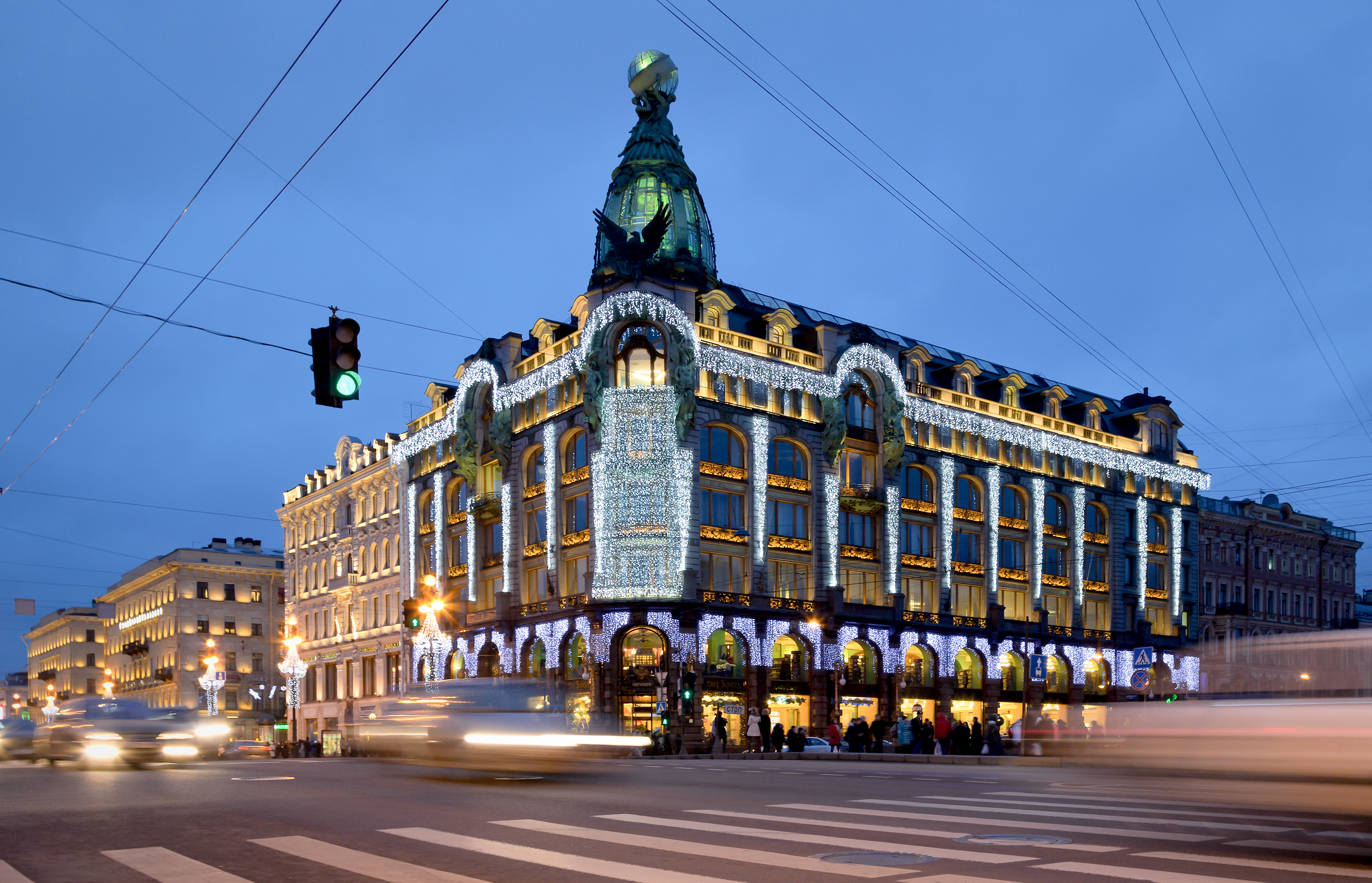 Singer Company House (Book House) at Nevsky Avenue in Saint Petersburg